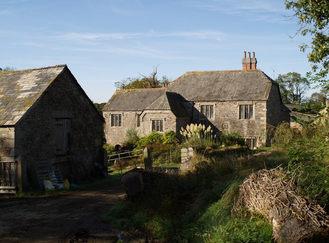 Treguddick Manor The manor and its farm lie in a sheltered side valley north of the River Inny not far from the A30. Mullioned windows with dripstones.